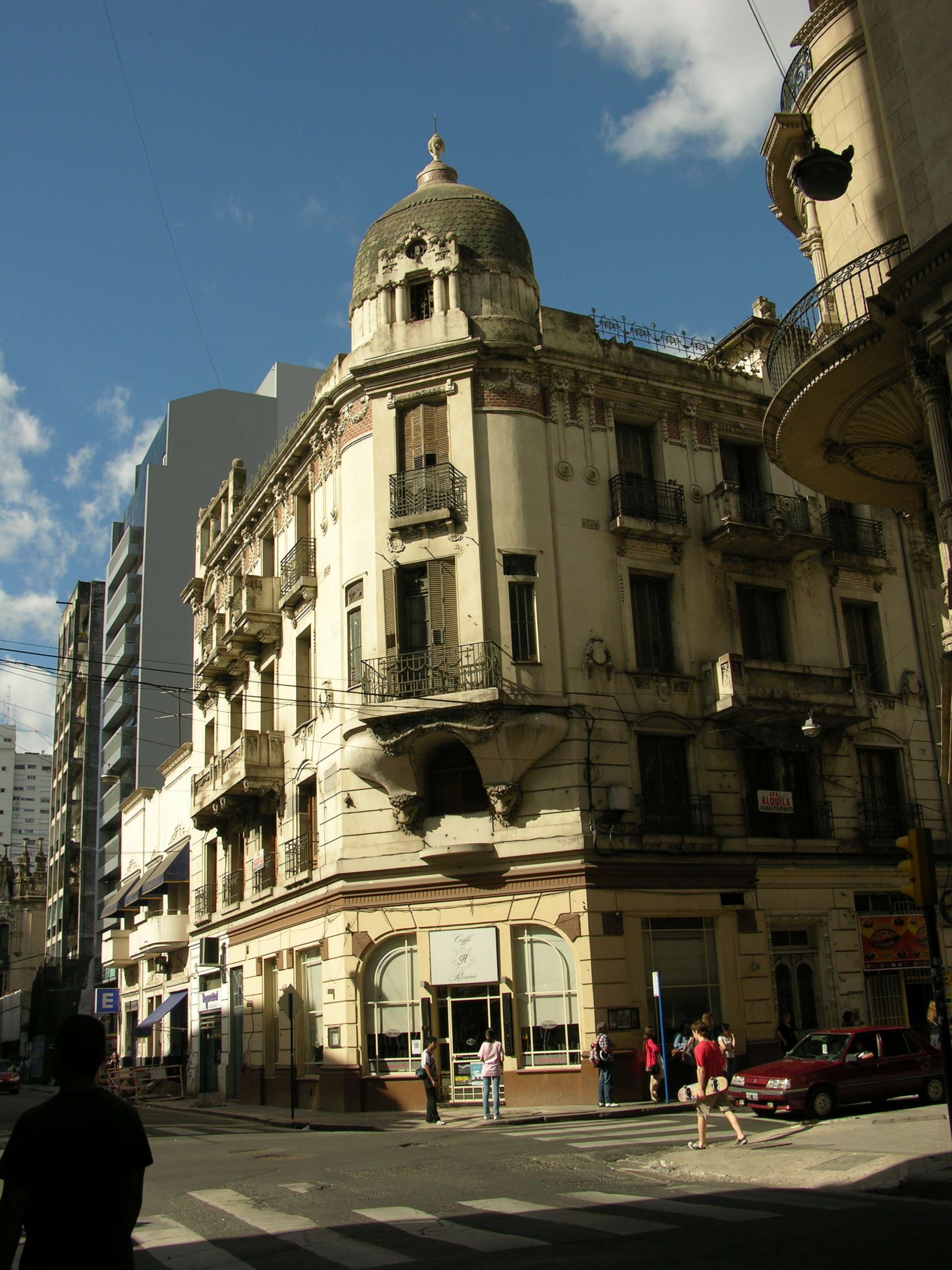 The Caffè Rosario, on Entre Ríos and Santa Fe Streets, Rosario.